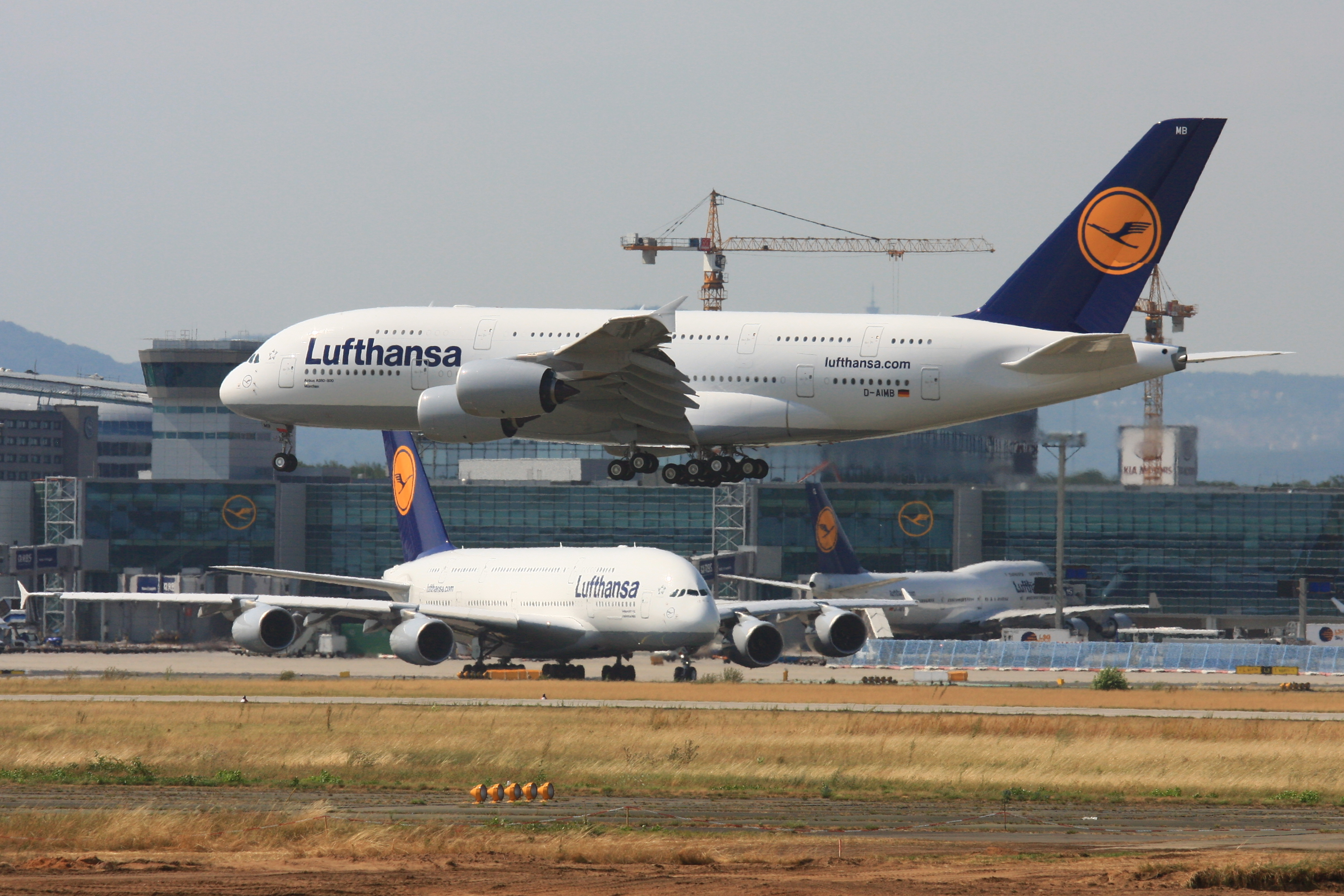 A Lufthansa Airbus A380 (D-AIMB) landing at Frankfurt Airport. In the background is another Lufthansa A380 (D-AIMA) and a Lufthansa Boeing 747.